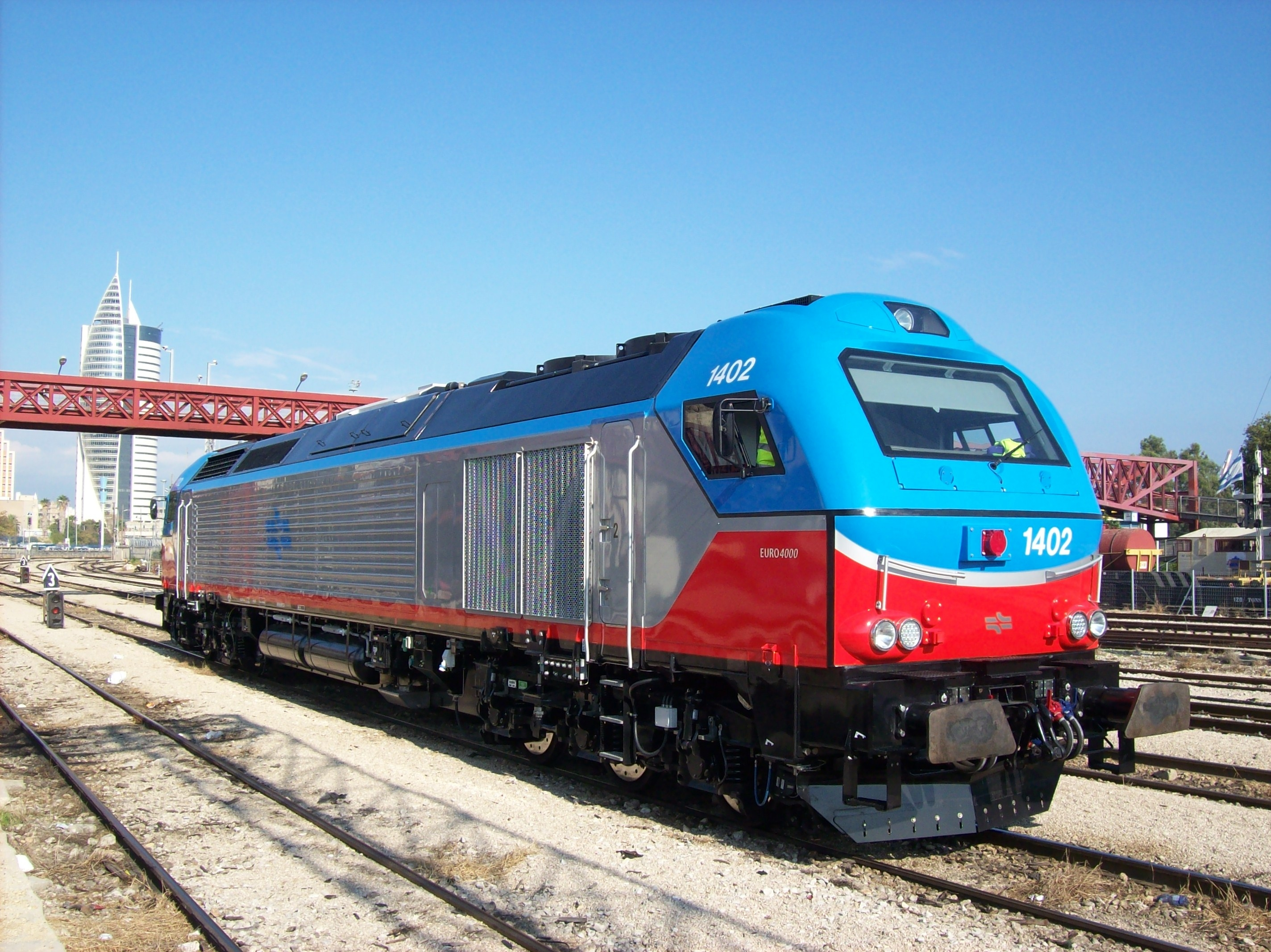 Israel Railways Euro 4000 at Haifa East station, before a trial run.